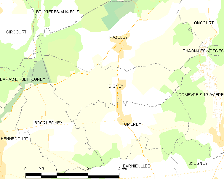 Map of French municipality Gigney